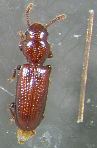 adult Saphophagus sp.